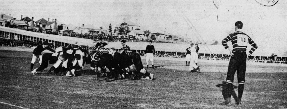 Queensland plays Mullineux's English (now known as the British and Irish Lions) team at rugby union in Brisbane.